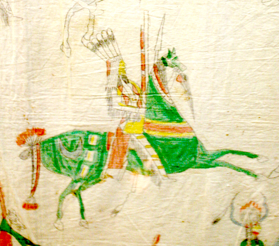 Ledger painting on muslin by Kiowa artist Silver Horn (1860-1940), ca. 1880, Oklahoma History Center